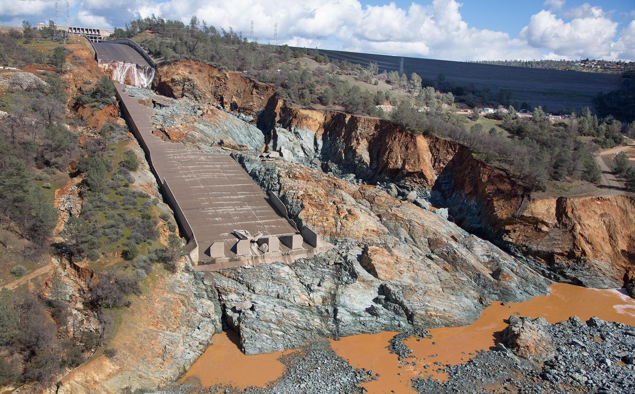 Draw down and cut off of releases from the damaged spillway at Oroville Dam. Taken on Feburary 27, 2017. Dale Kolke/California Delpartment of Water Resources.